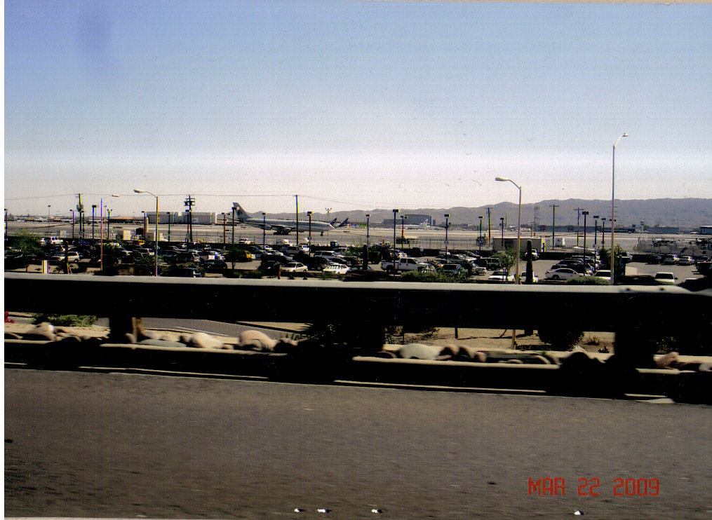 A Qatar Airways Airbus A340 at Phoenix